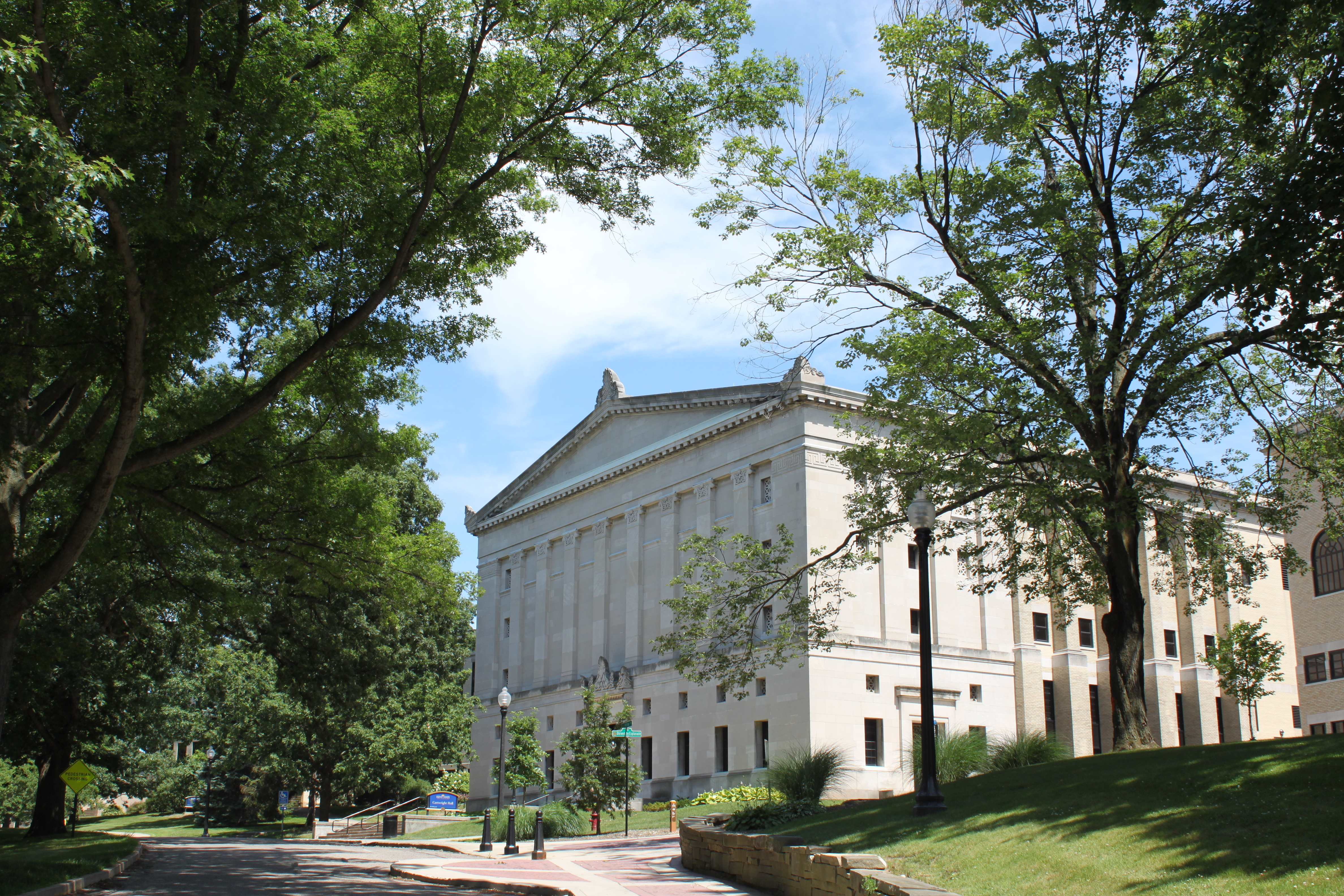 Recent shot of Cartwright Hall at KSU